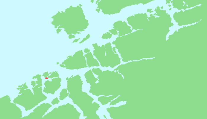 Locator map of Innlandet, Møre og Romsdal, Norway